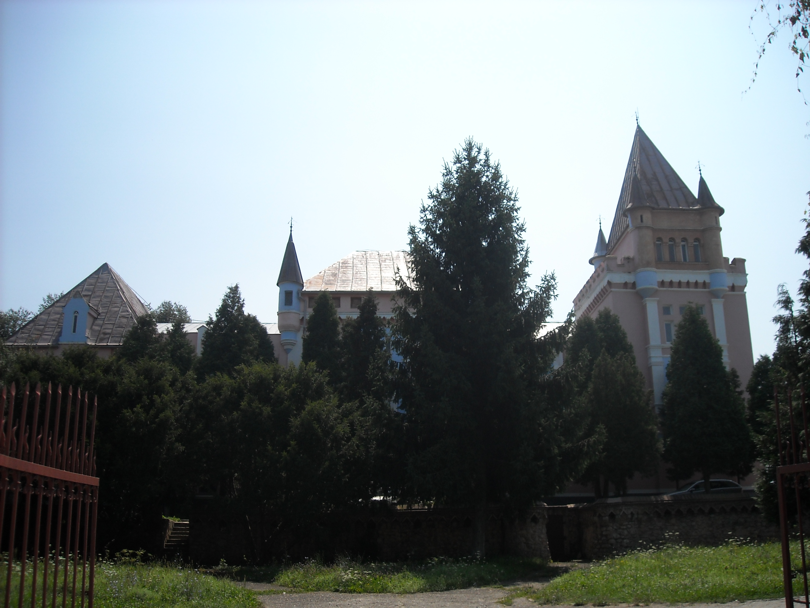 country mansion of the Kendeffy family in Sântămăria-Orlea/Őraljaboldogfalva, Romania